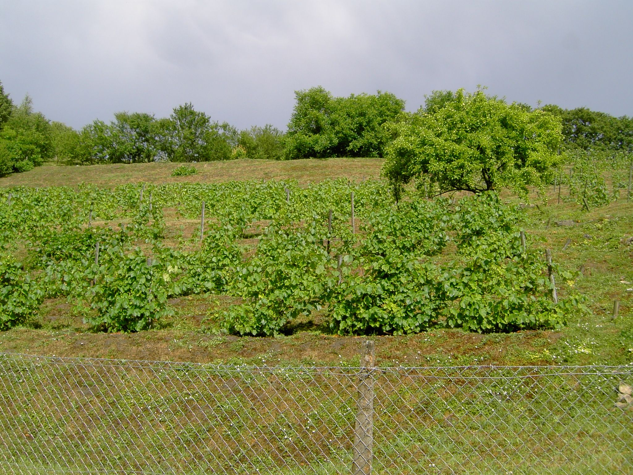 Shows the vineyard of Sabilé in the Talsi district in Latvia. According to a sign next to the vineyard it has been formed first time in the so called German period between 14th and 16th centuries. It is registered in the Guinness Book of World Records as the most northern open air vineyard in the world. Photo taken by Mghamburg on 3rd August 2006.